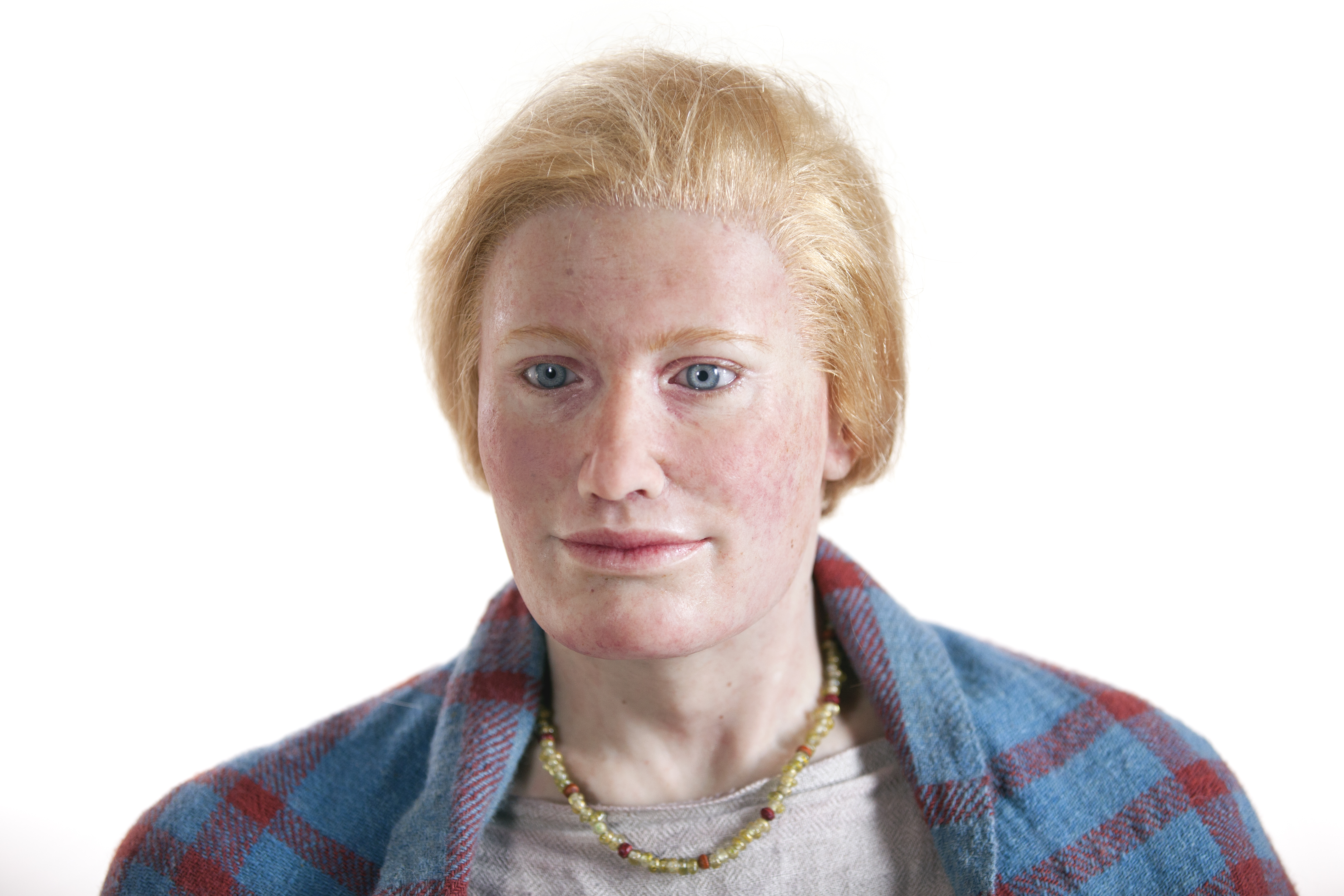 Reconstruction of a medieval woman, based on a skeleton found in Castricrum in the Netherlands